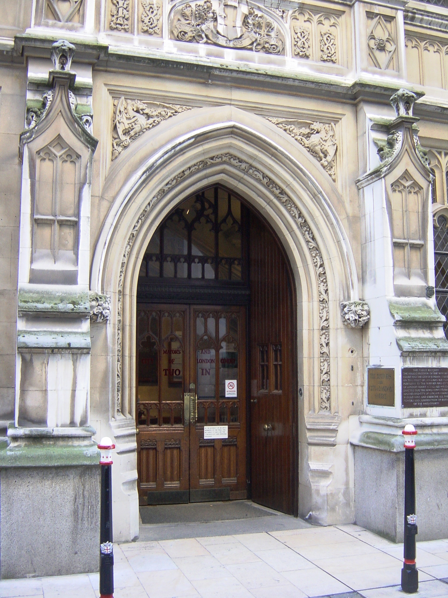 The Mayors and City of London Court, near the Guildhall